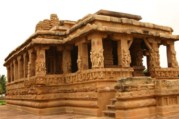 Front elevation of Durga temple